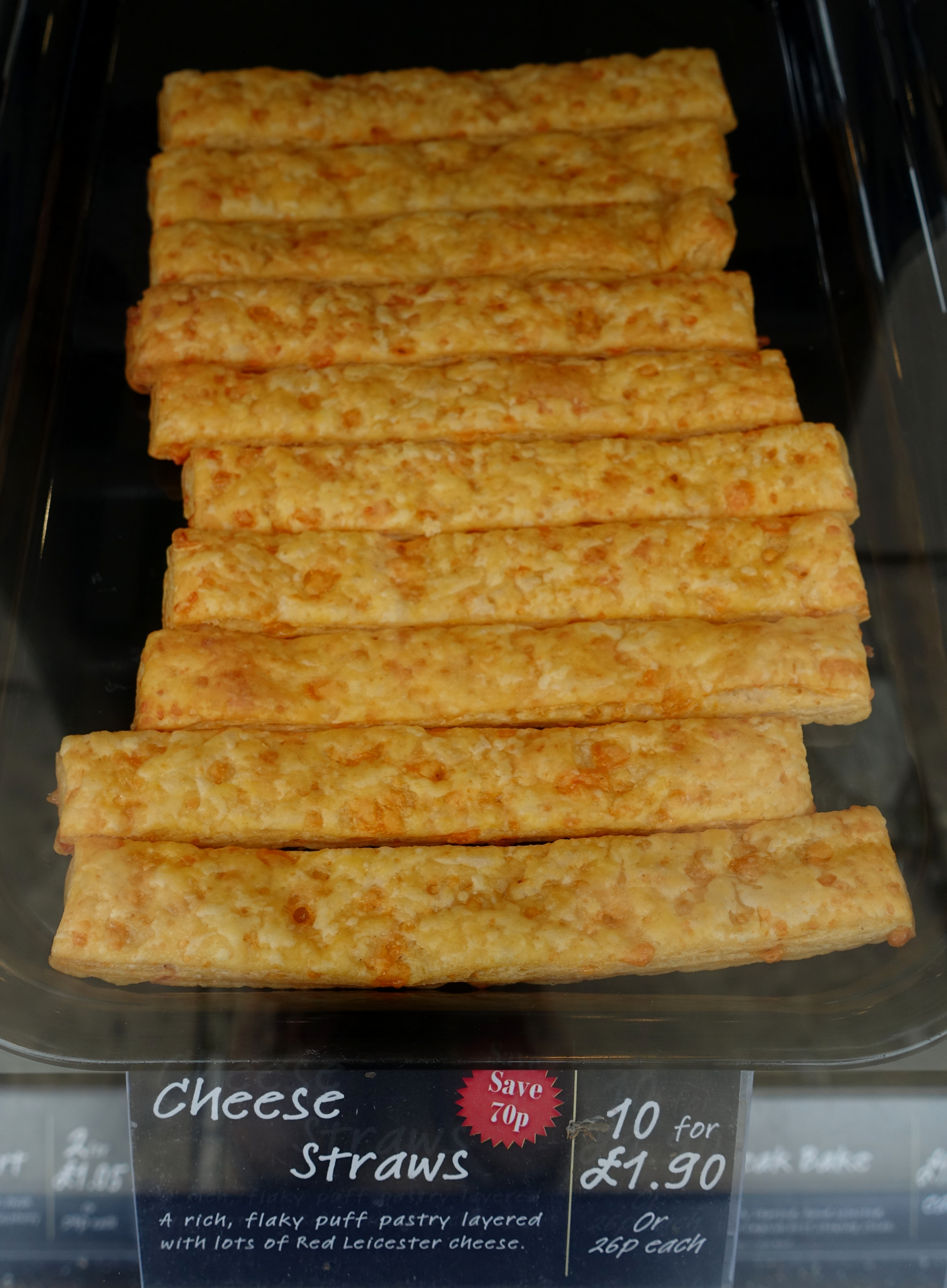 Cheese straws - Skipton, North Yorkshire, England.